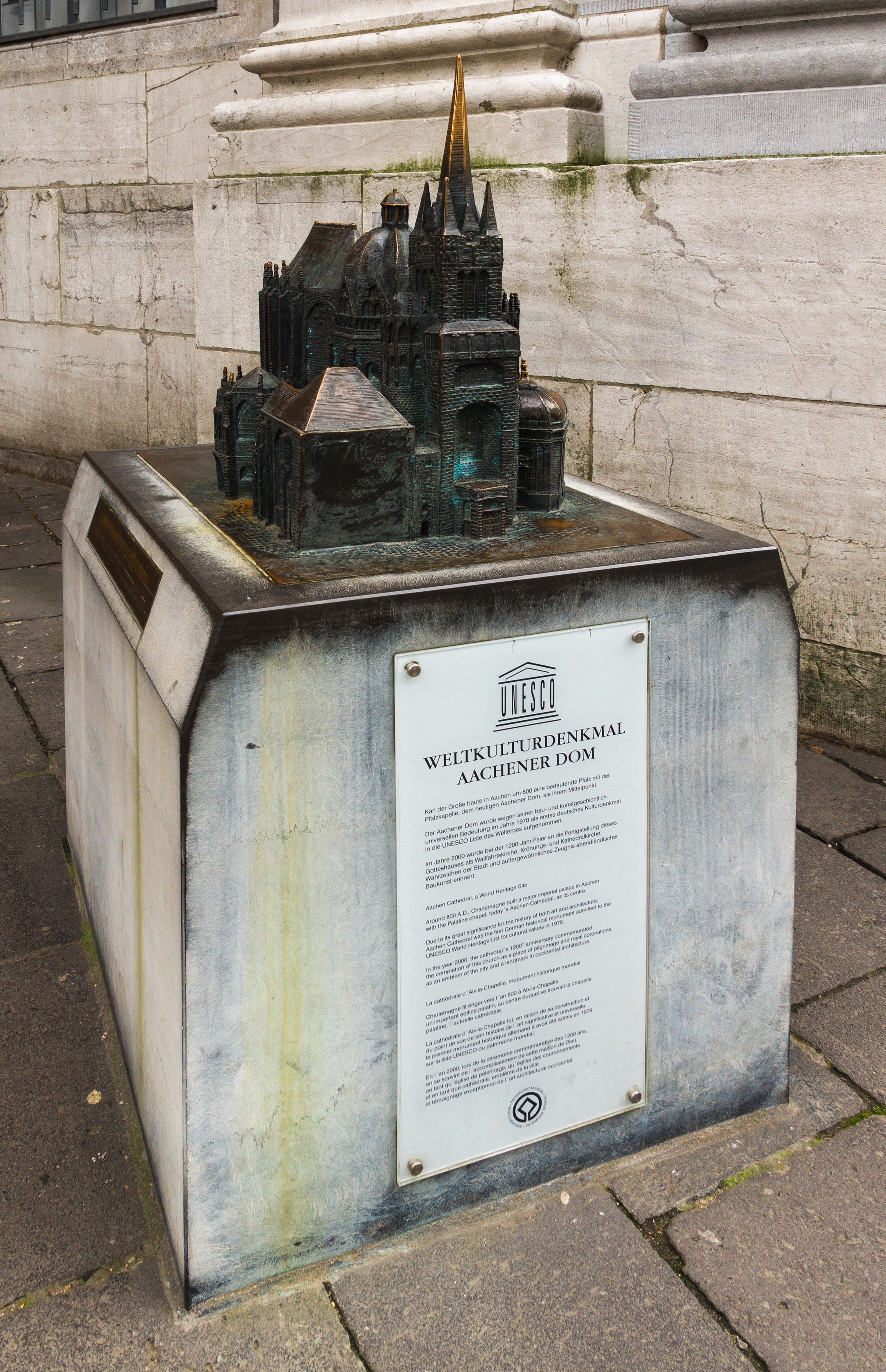 The Bronze model of the cathedral with the plaque of UNESCO on the pedestal, Aachen, Germany.